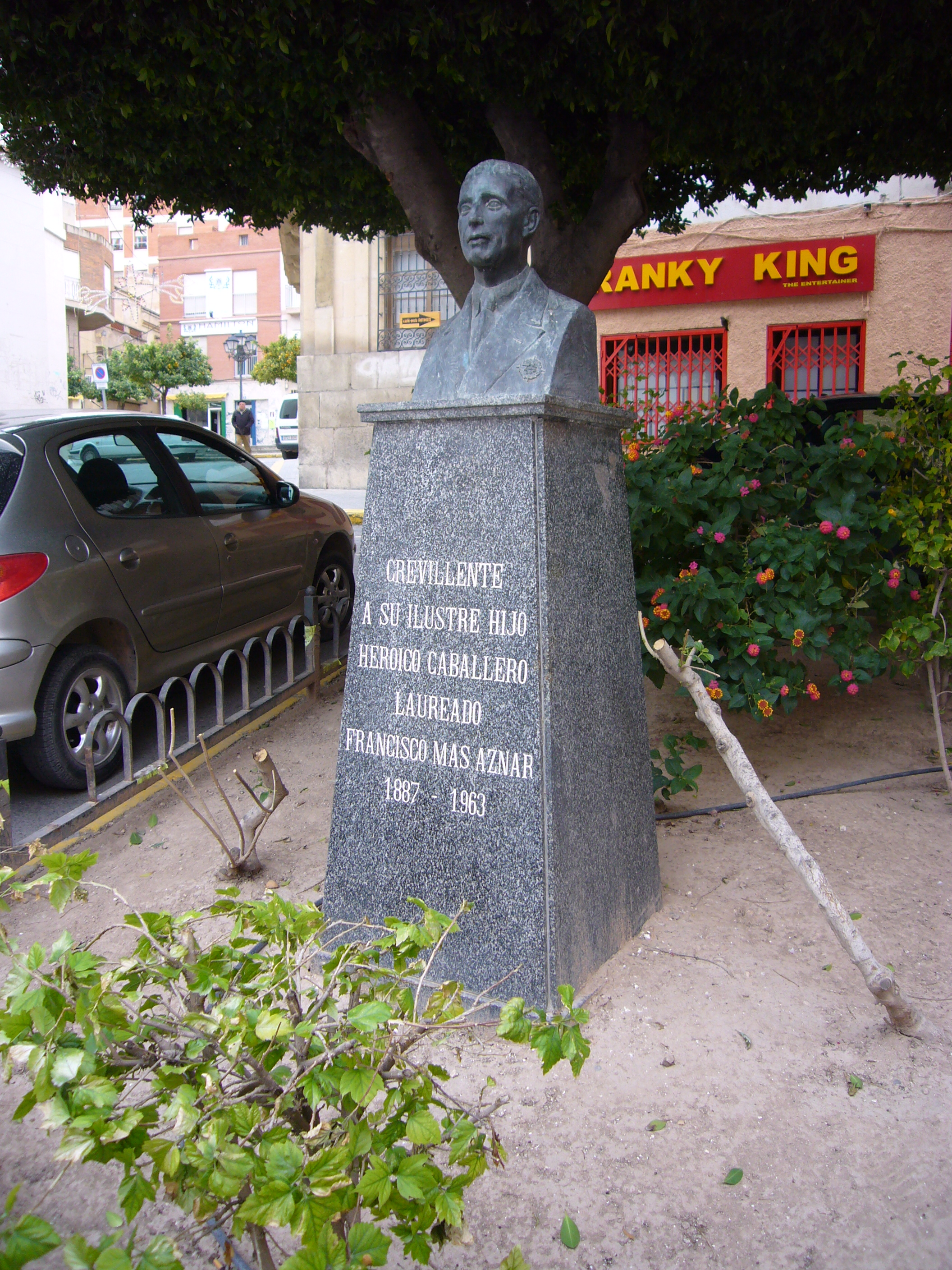 Bust of Francisco Mas Aznar, in Crevillente, Alicante.